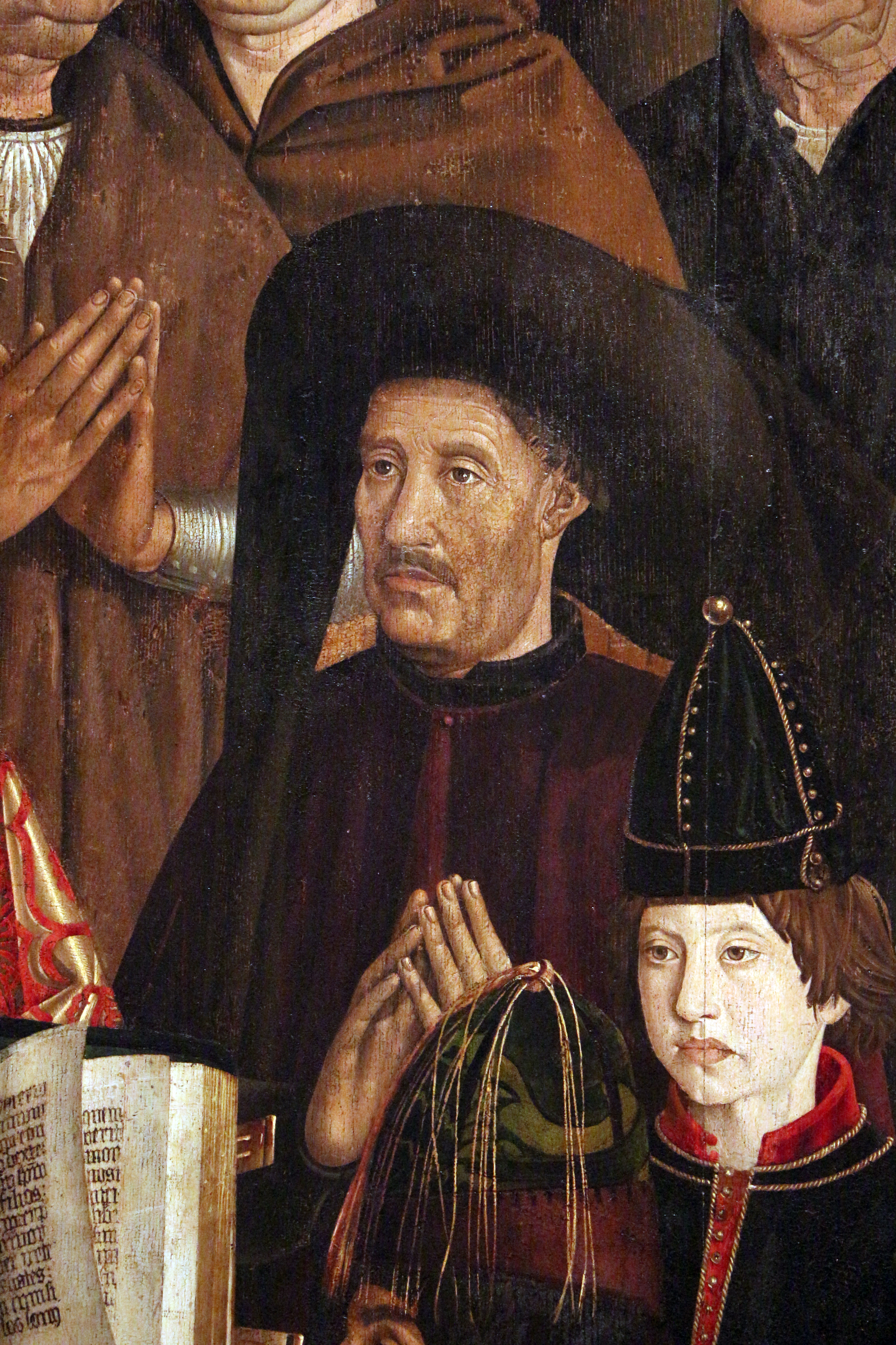 Saint Vincent Panels